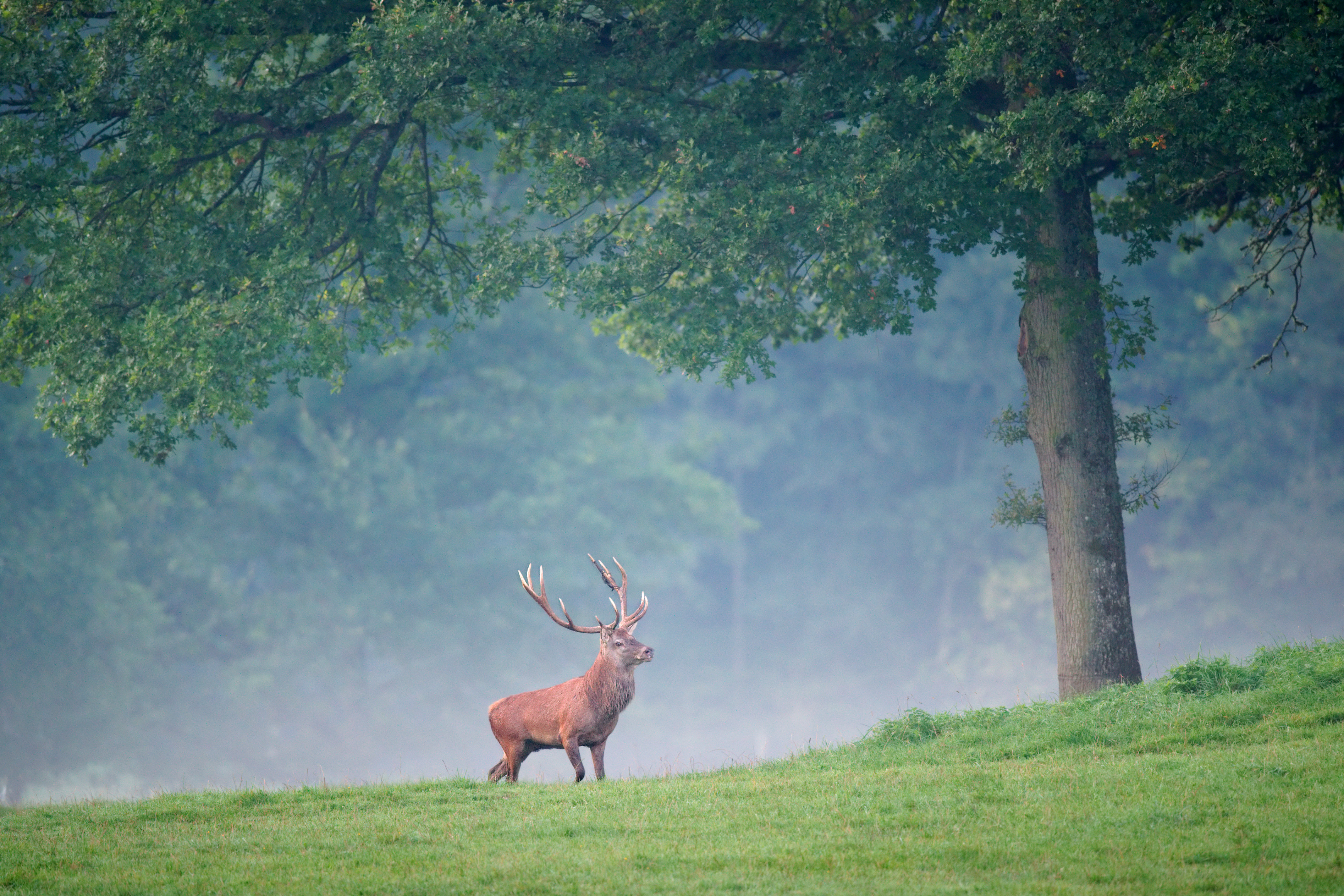 A Red deer Cervus elaphus, in Freyr forest, near Han-sur-Lesse, Belgium.